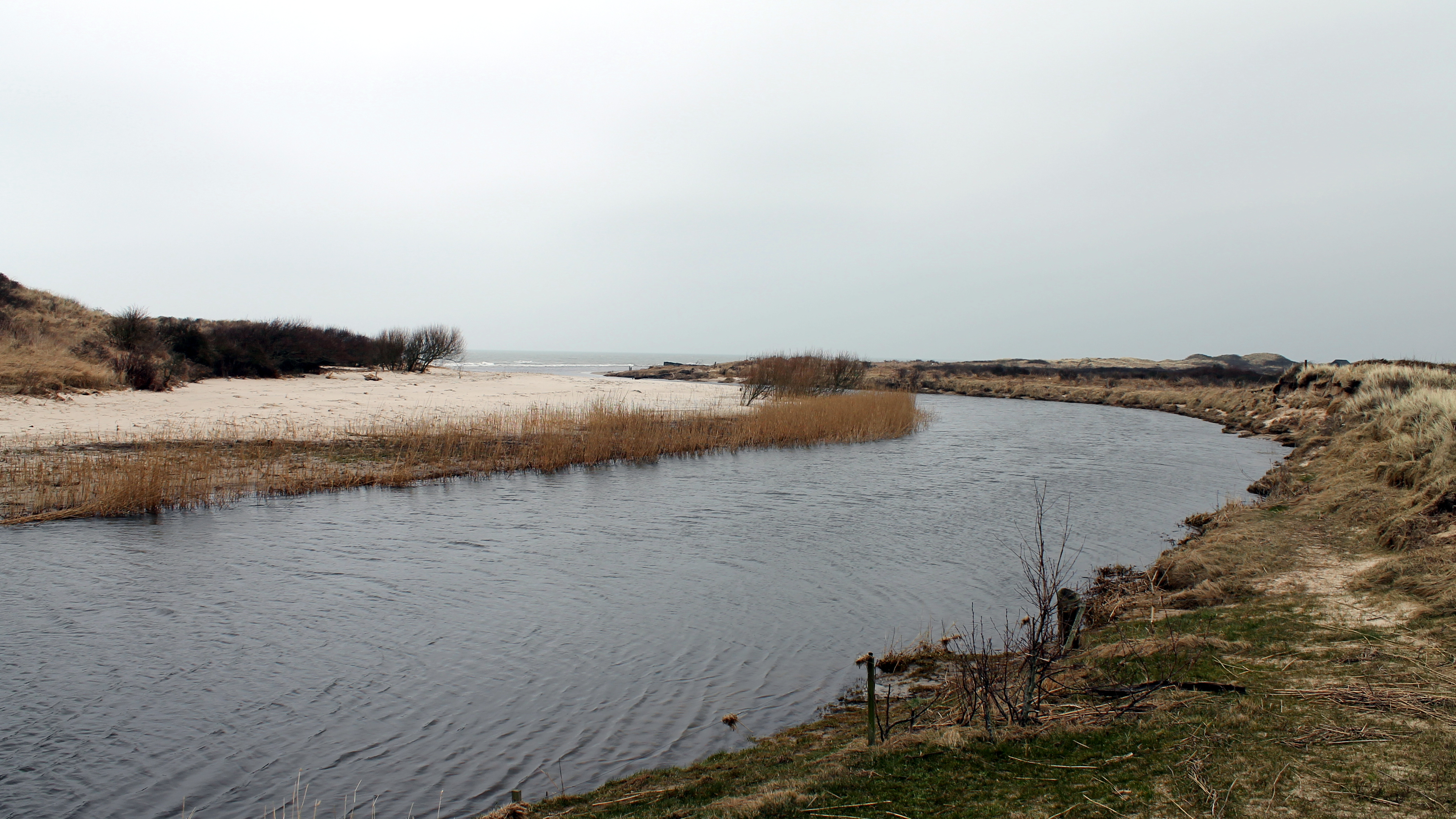 Uggerby Å river in Denmark, the mouth into Skagerrak (protected area)